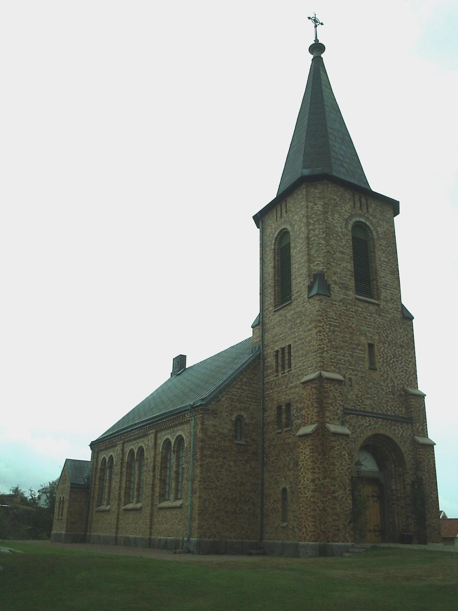 Photo by Harri Blomberg.